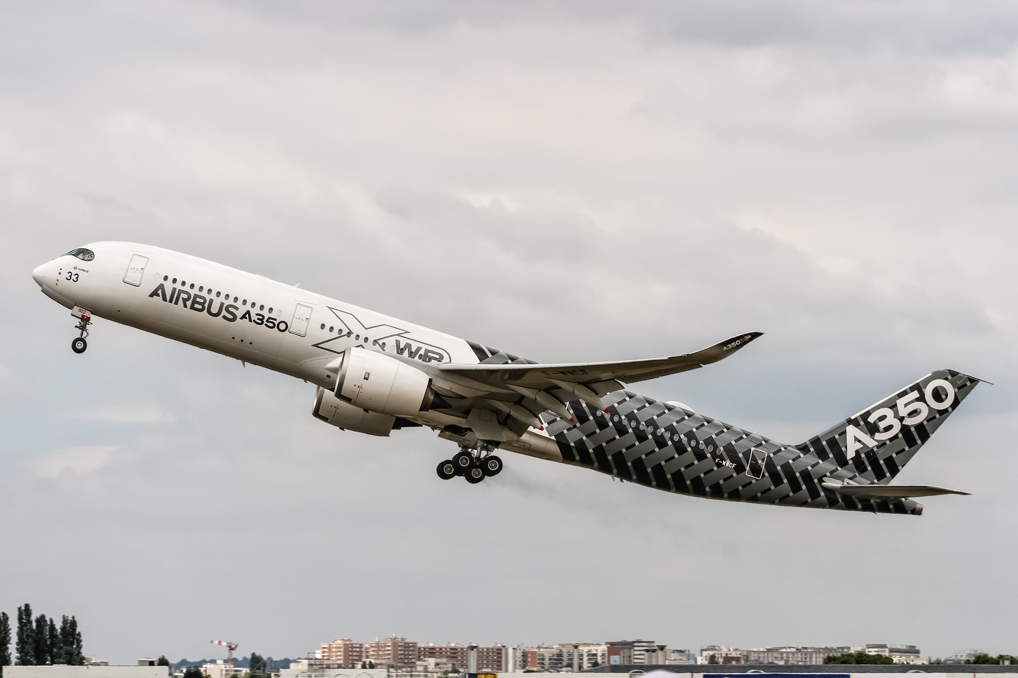 F-WWCF Airbus Industrie Airbus A350-941 @ Le Bourget (LFPB) - Paris Air Show 2015 / 20.06.2015